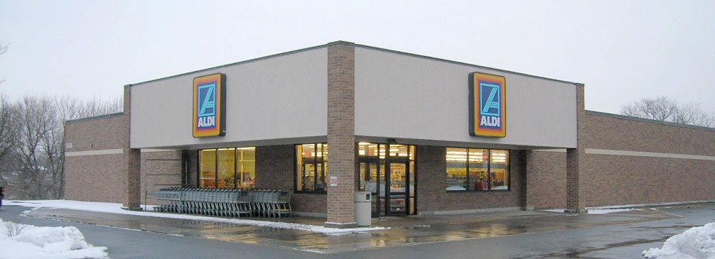 By Michael Katz Aldi in Bethlehem, PA taken at sunset, gamma corrected to make it lighter.